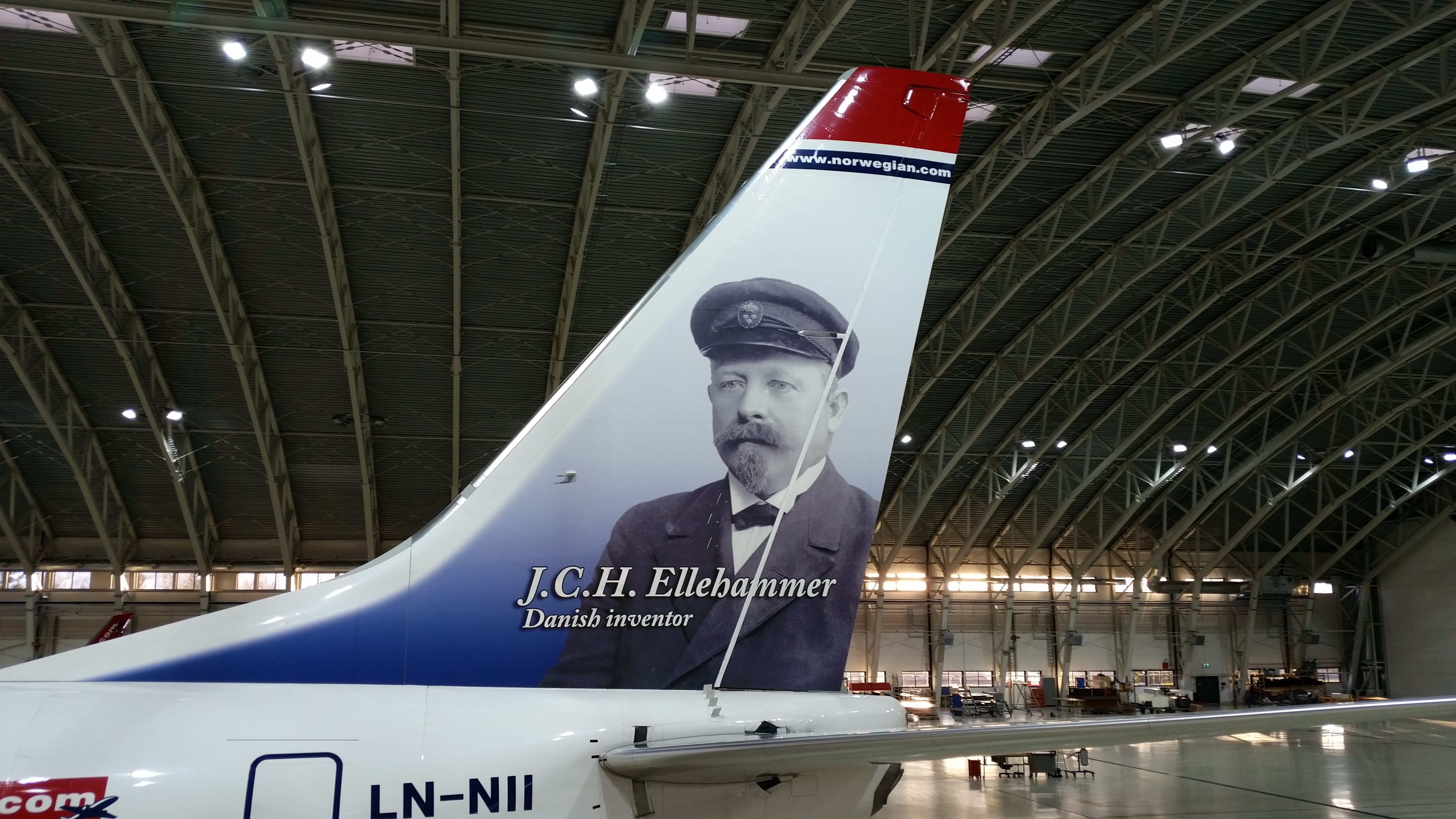 LN-NII